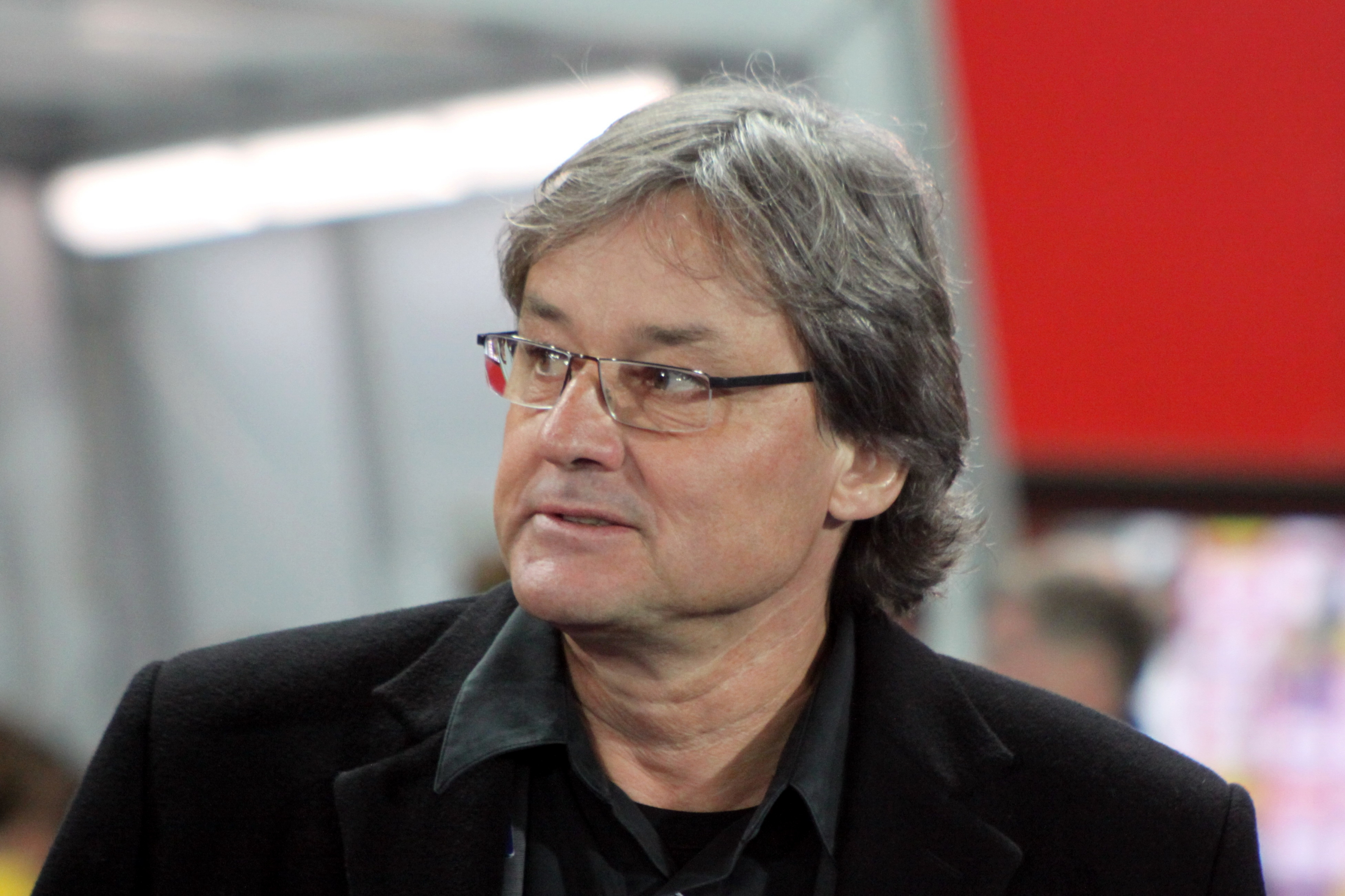 Dietmar Constantini, Teamchef of the Austria national football team